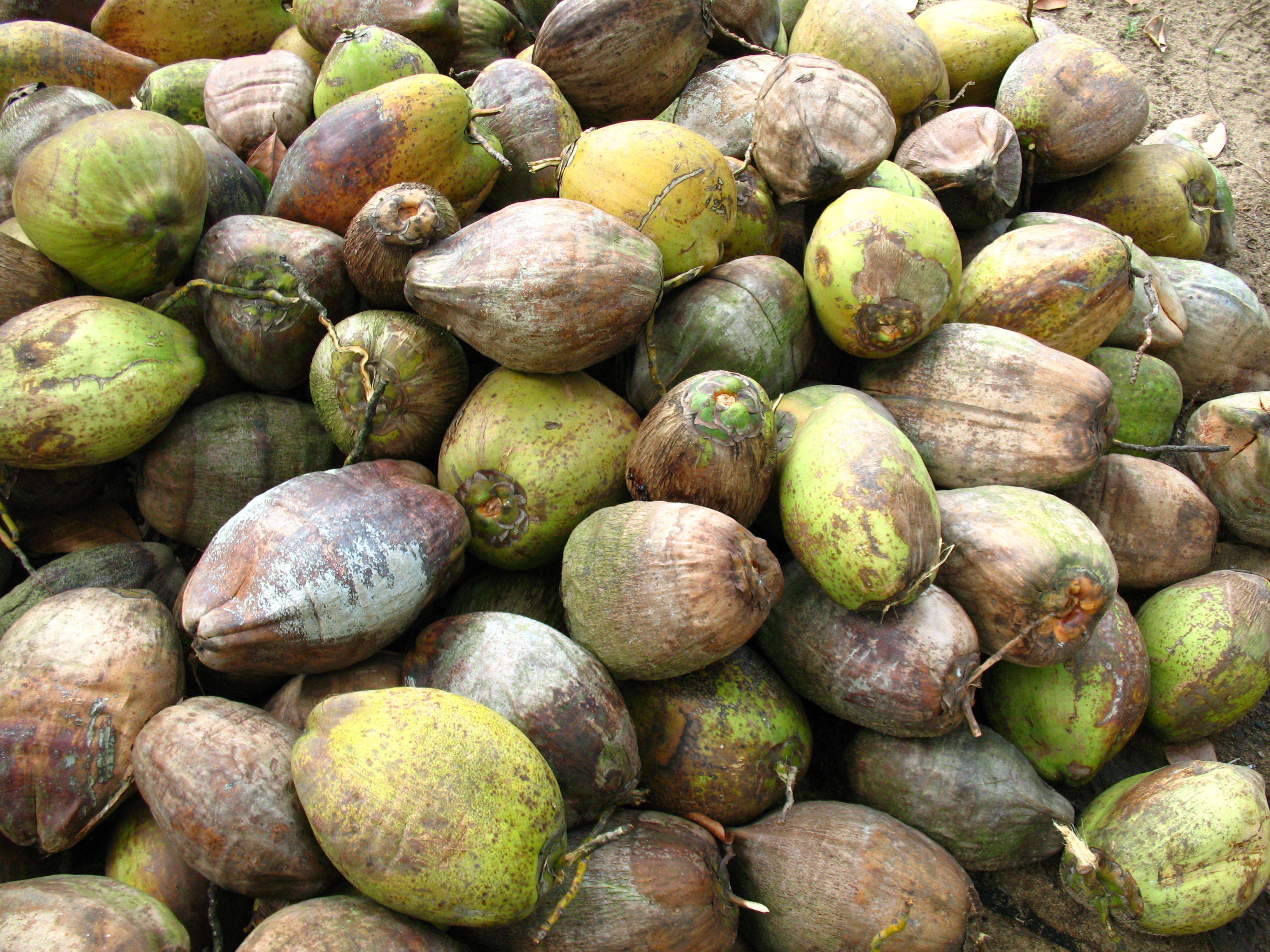 coconuts